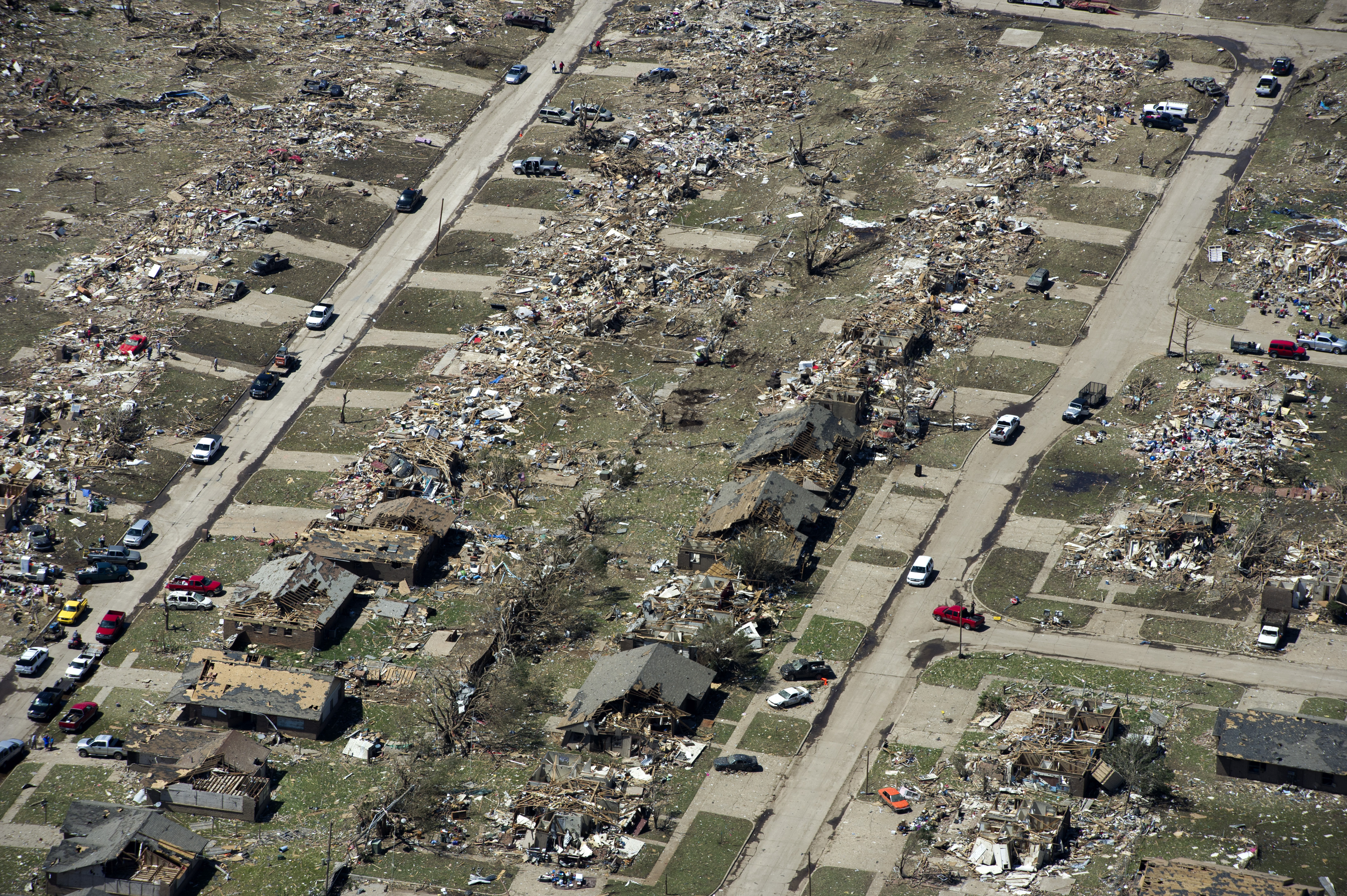 Shown here May 22, 2013, is an aerial view of homes destroyed by a tornado in Moore, Okla. The Oklahoma National Guard assisted with disaster response efforts after an EF5 tornado with winds exceeding 200 miles per hour struck the Oklahoma City suburb May 20, 2013. Oklahoma Insurance Department officials estimated nearly $2 billion in damage may have occurred in the affected areas.